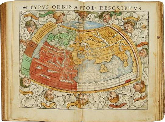 A Map of the World Described by Ptolemy, by Sebastian MunsterLatina: Typus Orbis a Ptol. Descriptus